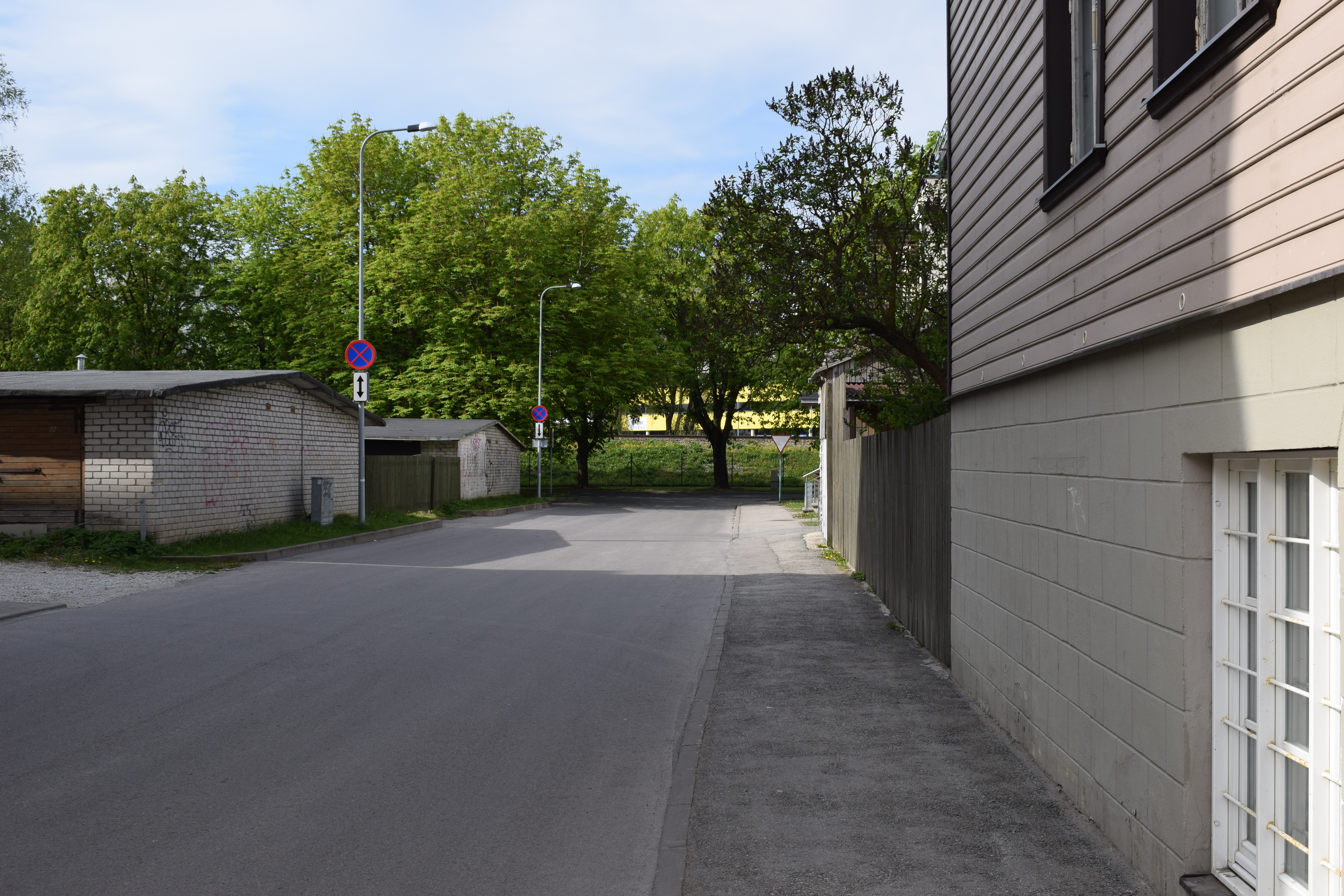 Kiire tänav